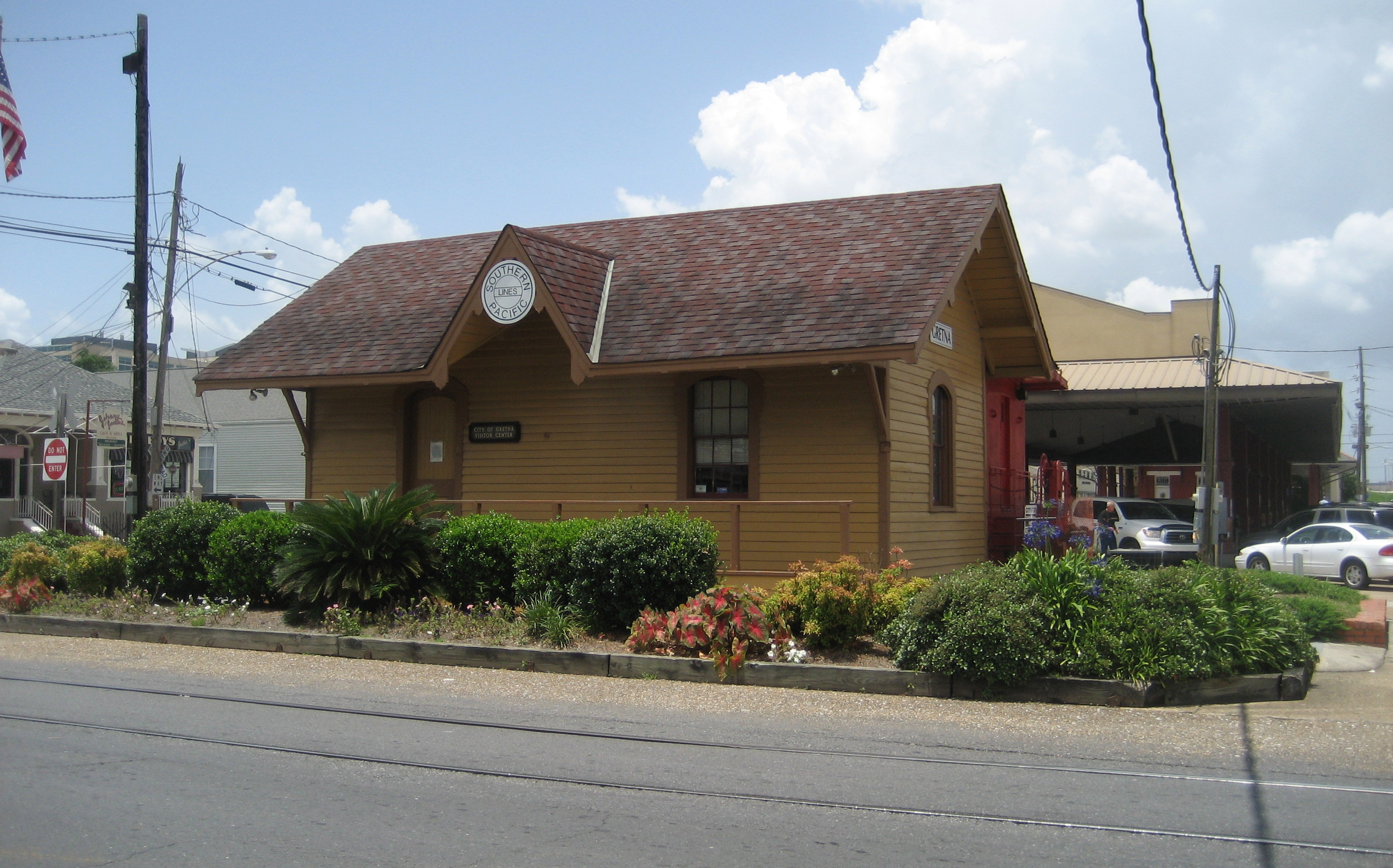 Gretna, Louisiana. Building fomerly Southern Pacific train station office.